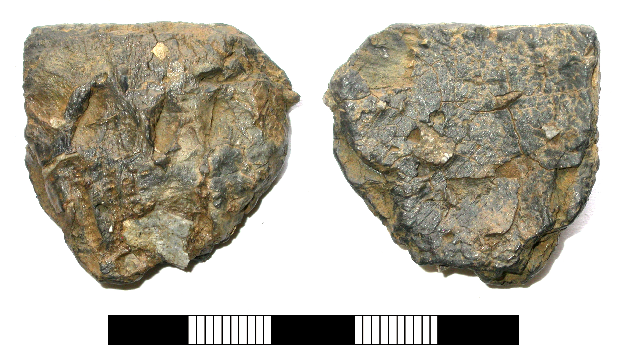 A ceramic rim sherd of Neolithic date made from a soft black fabric which contains a large flint grit. The rim is slightly out-turned and measures 33.83mm long with a thickness of 6.4mm. The diameter of the vessel appears to have been in the order of c120mm. External decoration comprises an upper band of hoof-shaped impressions (3-4 are visible) perhaps made using the tip of a bone and a lower band of diagonal whipped cord impressions (2 are visible). The sherd belongs to the Peterborough Ware tradition, c3500-2500BC.